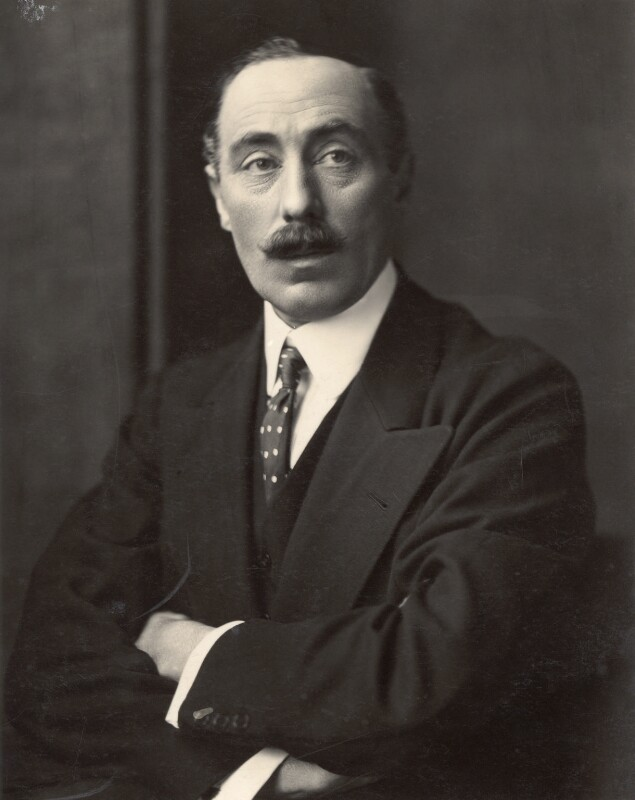 Ivor Churchill Guest, 1st Viscount Wimborne (16 January 1873 – 14 June 1939)